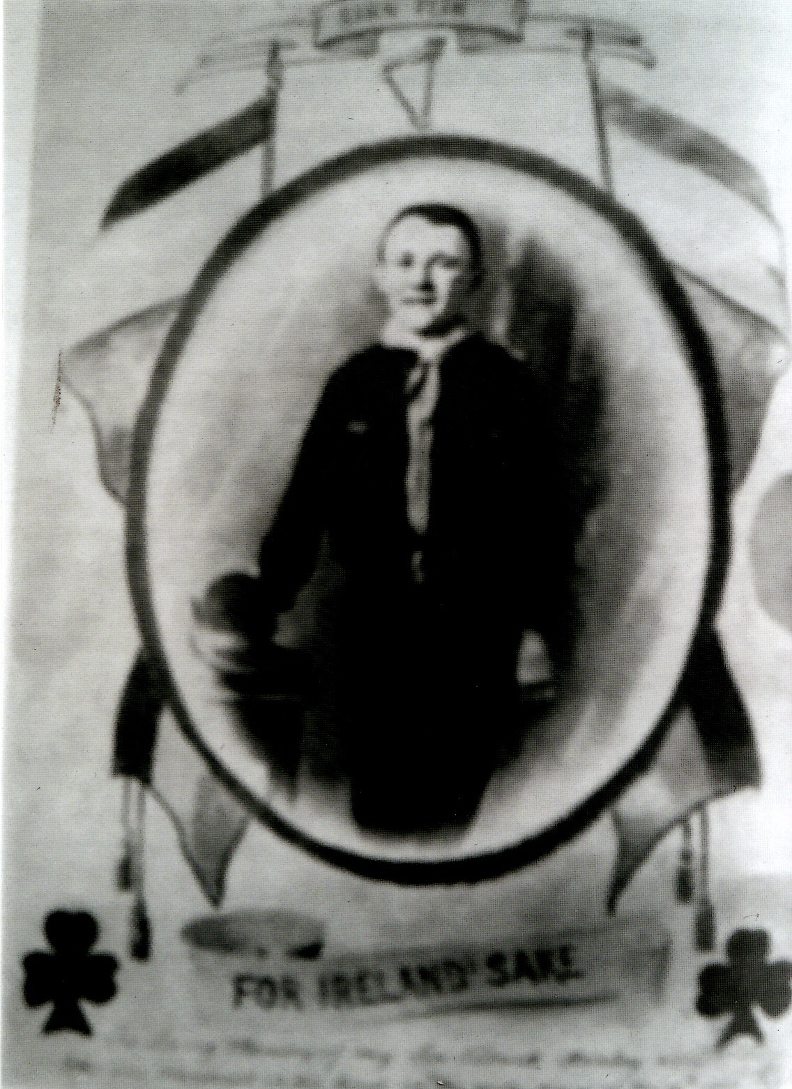 Fianna Éireann Scout Patrick Hanley, murdered by RIC in Cork, 27 November 1920